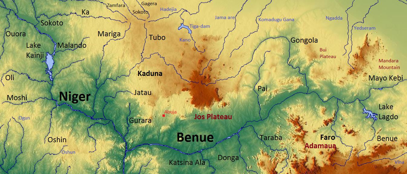 Center of Nigeria with the Niger, Benue and the Jos Plateau. Black letters: Niger basin, Blue letters: other basins, Brown letters: mountains.